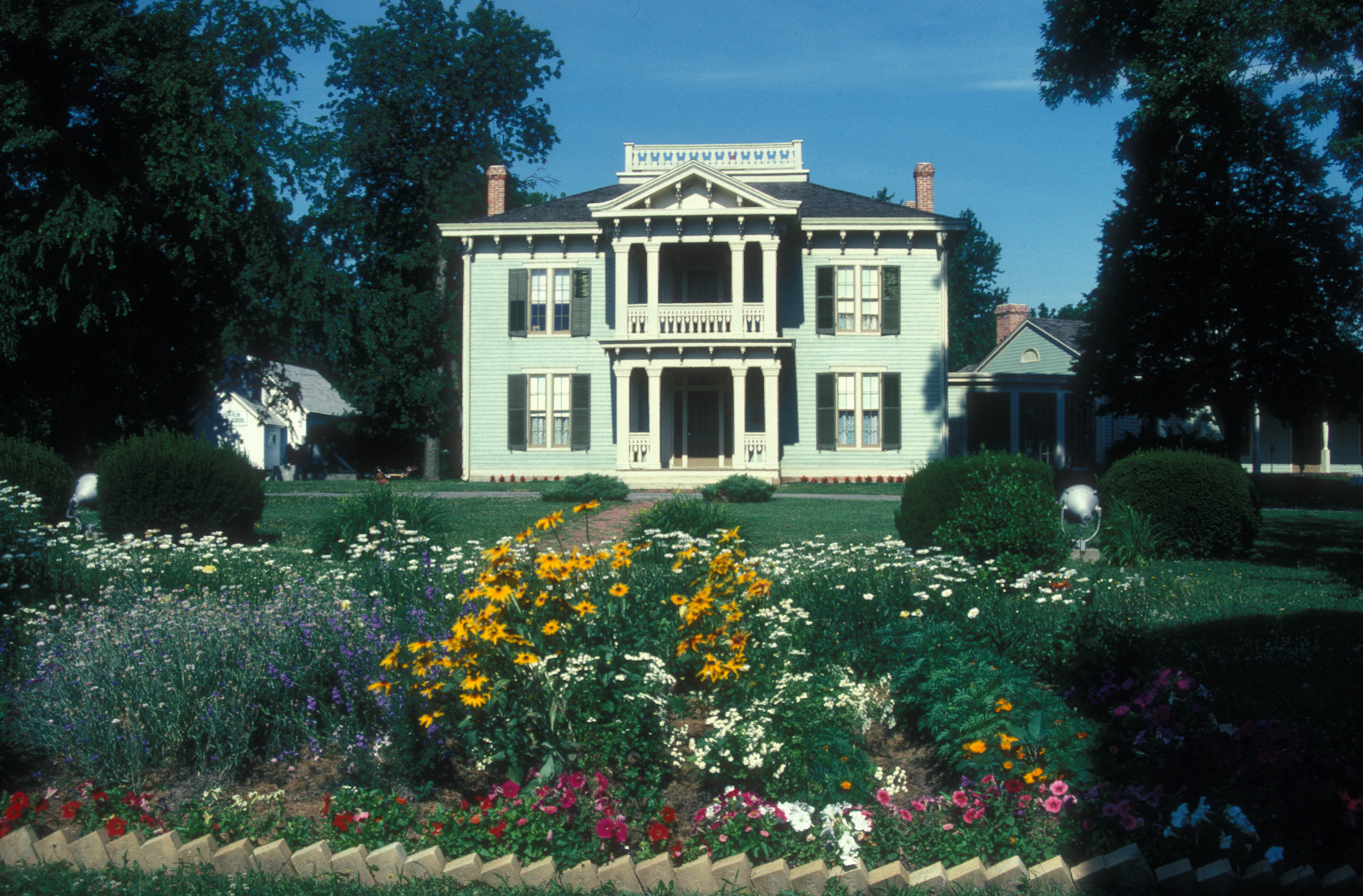 Graceland: (aka Ross House, John Clark House) Mexico, ante-bellum mansion visited by General Grant on an expedition in the earlier part of his Civil War career. Now houses the saddle horse museum since Mexico was the home of Rex McDonald, world champion saddle horse stallion